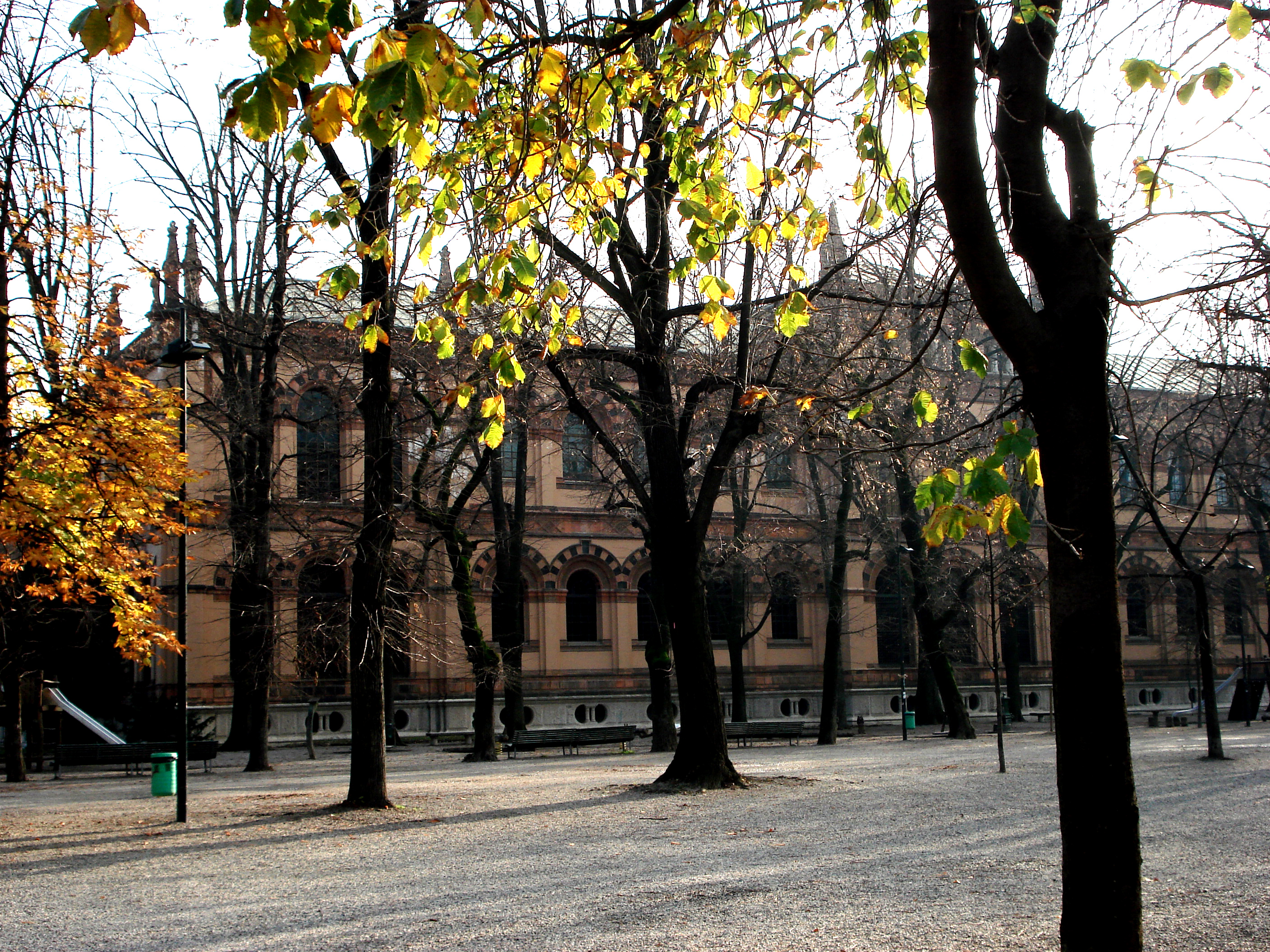 The Natural history museum in Milan, Italy. Picture by Giovanni Dall'Orto, december 20 2006.